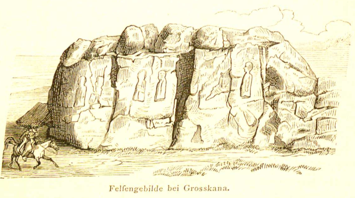 Illustration by German explorer Johann Nepomuk Sepp of "Grosskana", the early-Christian Bas-reliefs of the Apostles in Qana in his book "Meerfahrt nach Tyros zur Ausgrabung der Kathedrale mit Barbarossa’s Grab", published in Leipzig 1879, scanned from a copy at the Staatsbibliothek zu Berlin – Preußischer Kulturbesitz (Berlin State Library – Prussian Cultural Heritage)